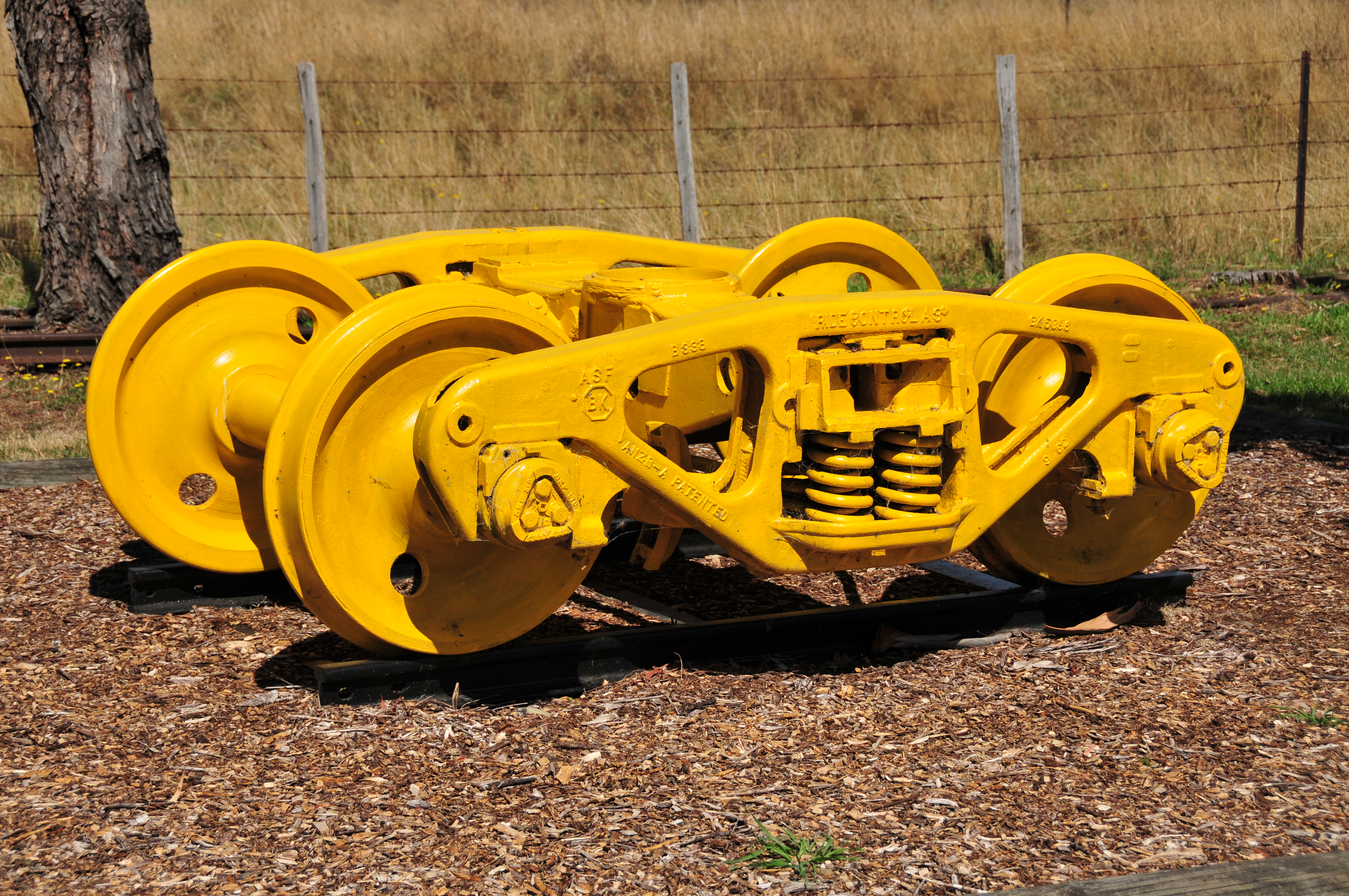 A Bogie from a K G Wagon at Mole Creek, Tasmania, Australia